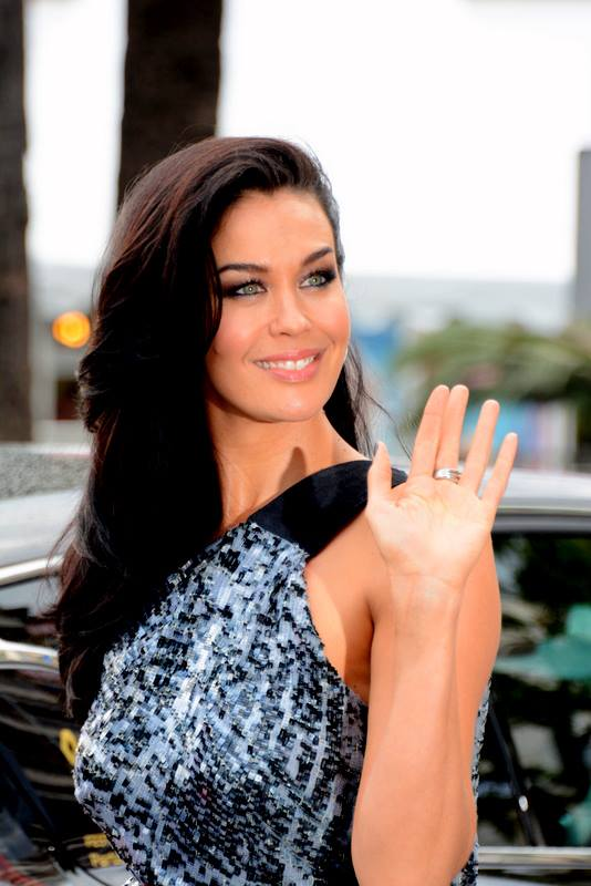 Megan Gale at the Cannes film festival